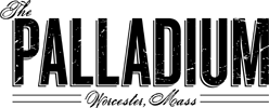 Logo / Sign for The Palladium